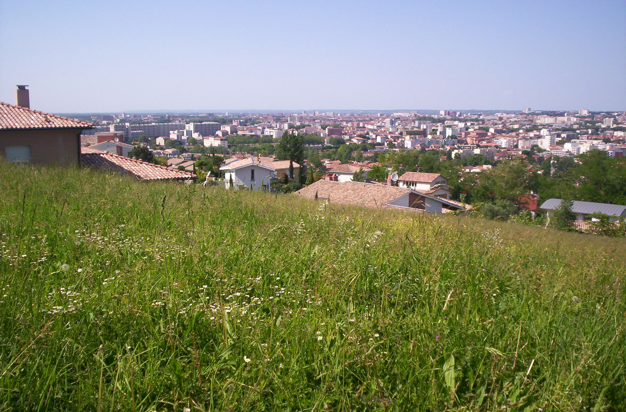 Toulouse (Haute-Garonne, France) : City view from Pech-David.